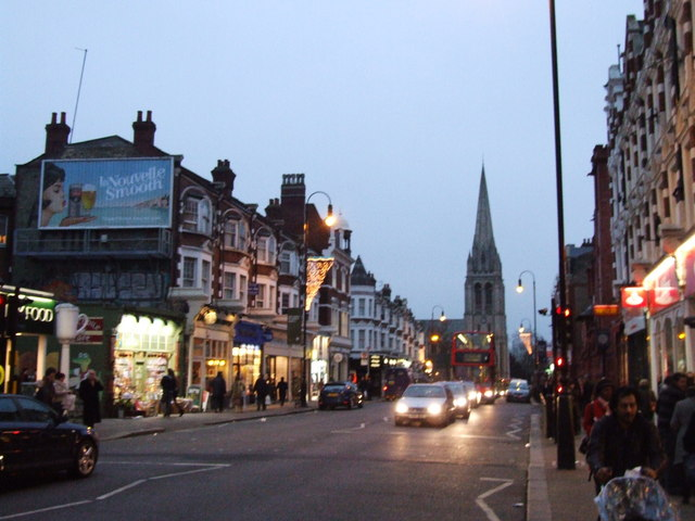 Muswell Hill Broadway